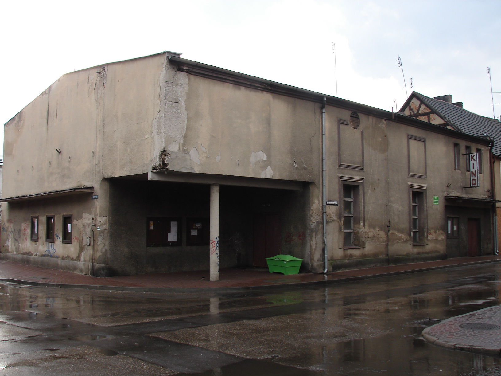 Synagogue in Obrzycko